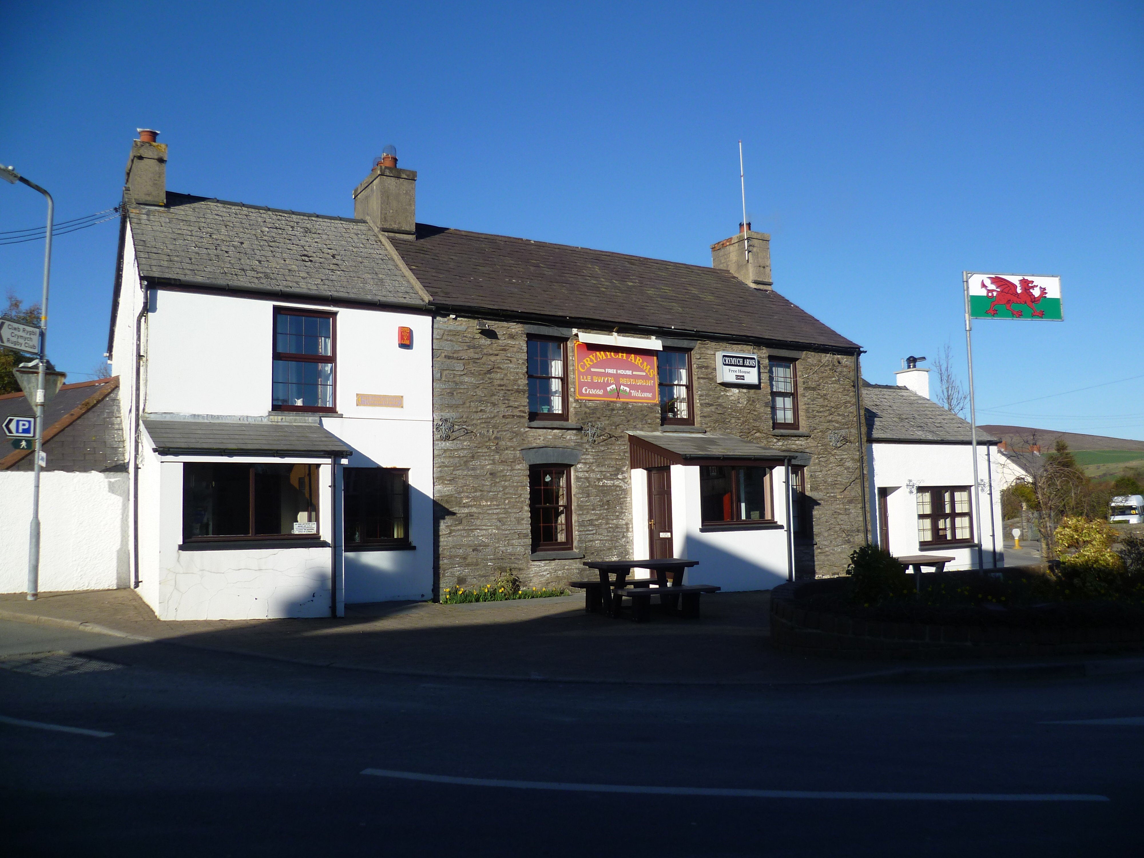 The Crymych Arms pub is one of the oldest buildings in Crymych, and gives its name to Crymmych Arms railway station, the arrival of which accelerated the development of the village in the mid-19th century.